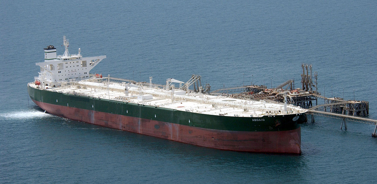 IMO Number: MMSI Number: 311284000 Callsign: C6SD4 Length: 334 m Beam: 59 m 030629-N-4790M-003 Central Command Area of Responsibility (Jun. 29, 2003) -- Commercial oil tanker AbQaiq readies itself to receive oil at Mina-Al-Bkar Oil terminal (MABOT), an off shore Iraqi oil installation. AbQaiq is the first commercial vessel to receive a post-war shipment of crude oil for export at Mabot. AbQaiq is scheduled to take on an estimated 2 million barrels of crude oil. U.S. Navy and coalition forces are helping to provide security, enforcing an exclusionary perimeter around the terminal. U.S. Navy photo by Photographer's Mate 2nd Class Andrew M. Meyers. (RELEASED)